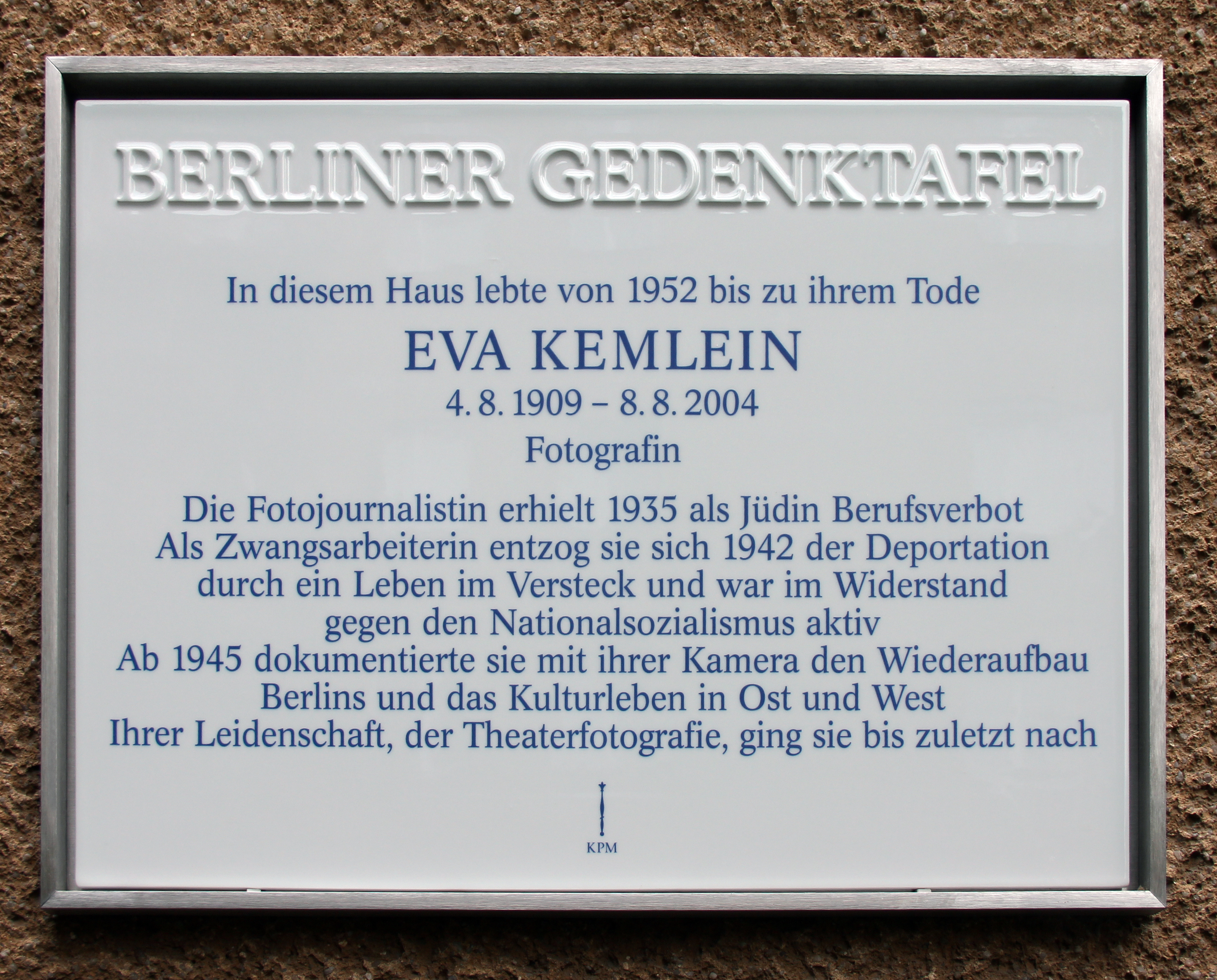 Berlin memorial plaque, Eva Kemlein, Steinrückweg 7, Berlin-Wilmersdorf, Germany